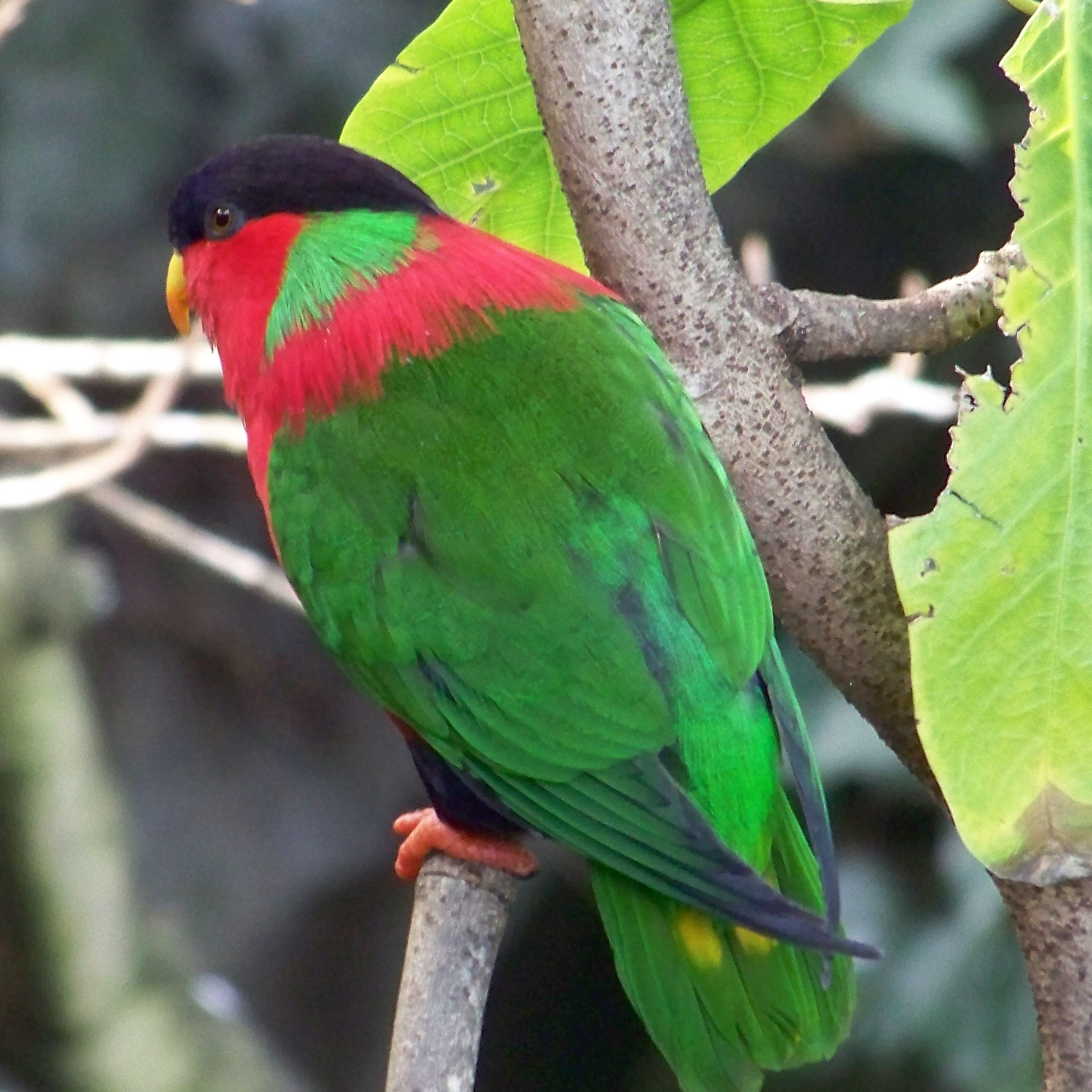 Collared Lory photographed at San Diego Zoo, USA.